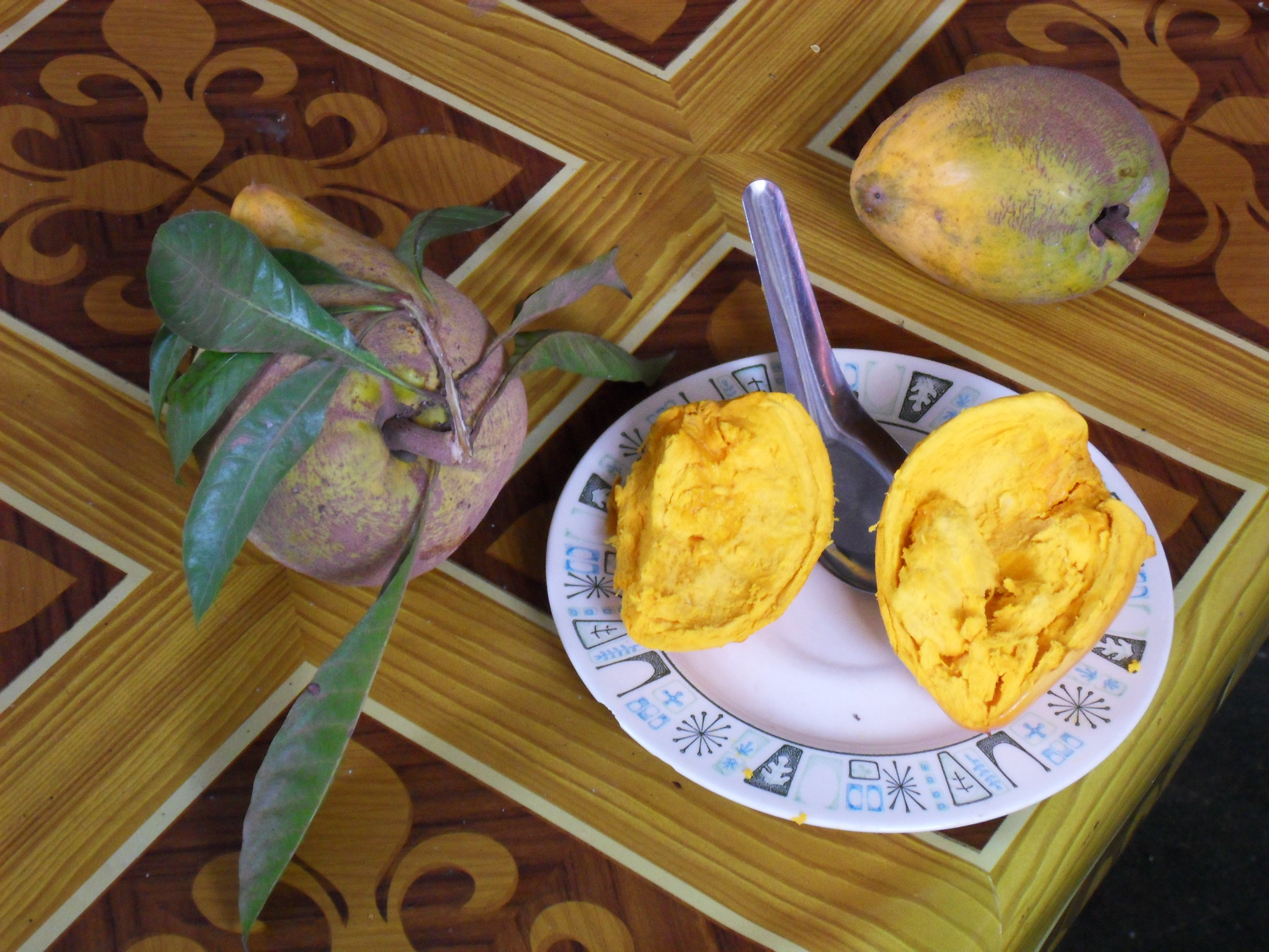 Eggfruit (Pouteria campechiana ?)